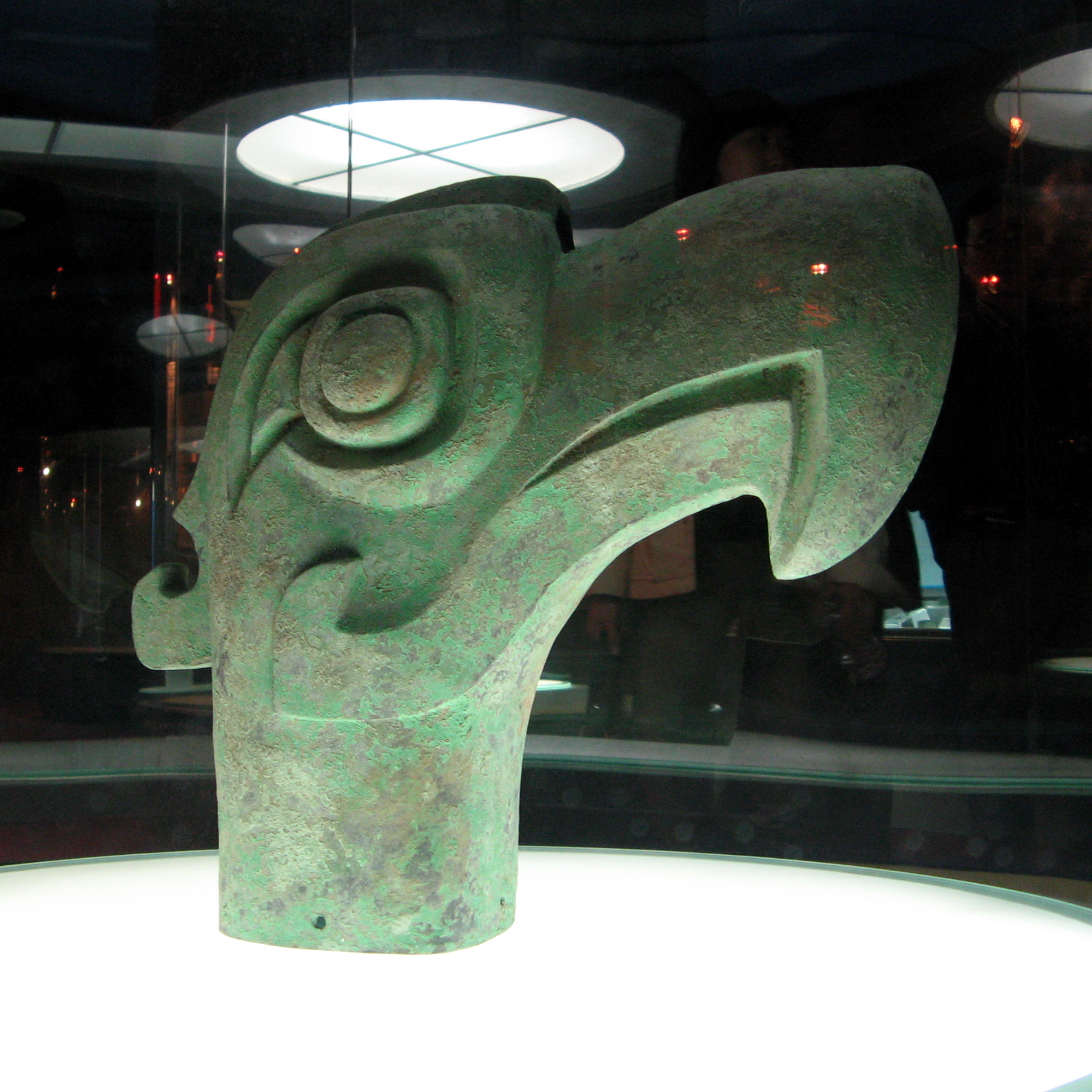 Head of a Raptor. Sanxingdui Museum. The museum label identifies this bird as an osprey ("fish hawk"). The oversize (40cm, 16in tall) bronze head would originally have been fixed on the end of a pole. The museum label suggests this was a totem object of the Shu people, and mentions in particular one Shu king (date not given) who was named Yufu (fish-hawk).